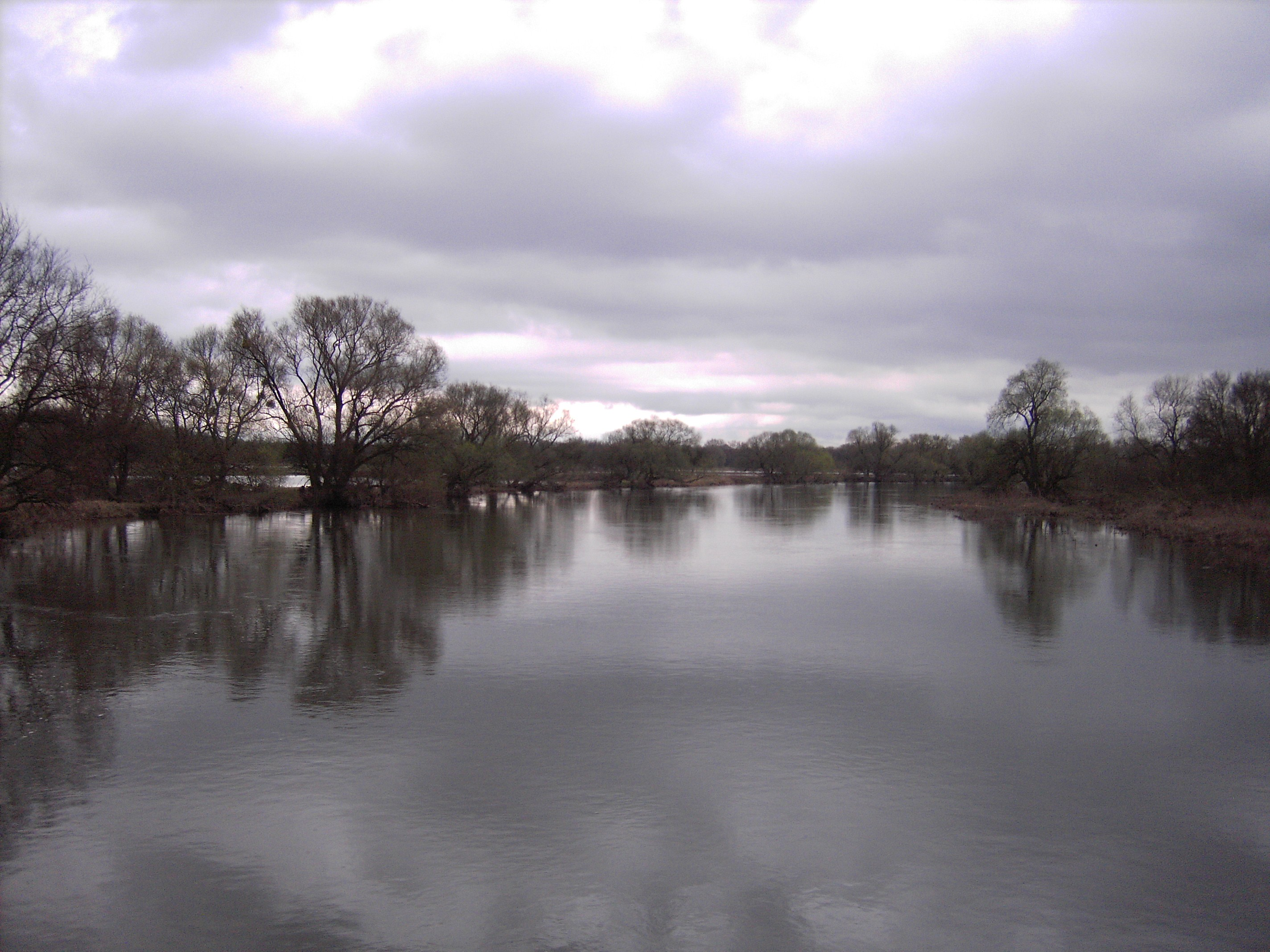 Die Mulde bei Dessau, bei Hochwasser